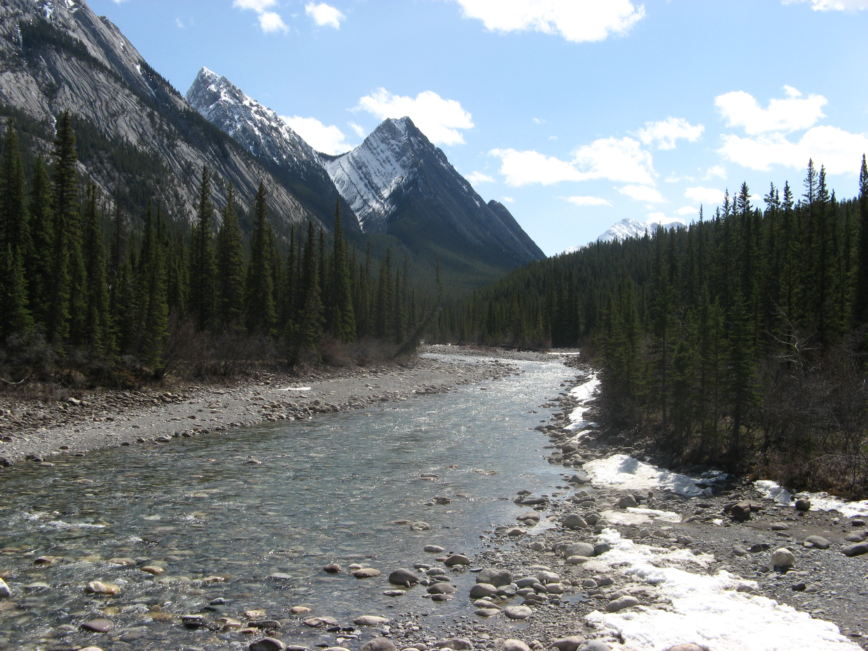 SiffleurRiver - Author